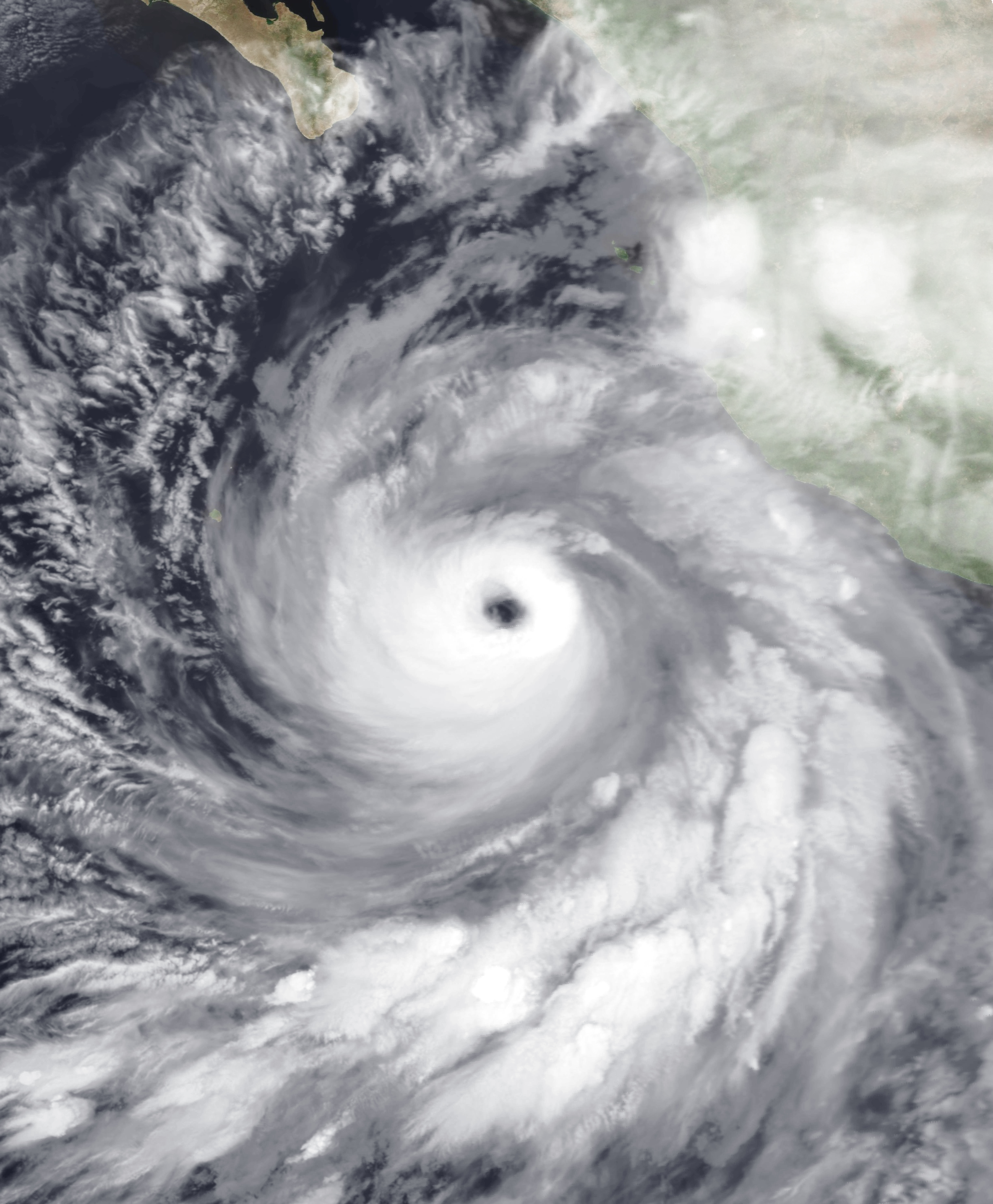 Hurricane Bud near peak intensity on June 12